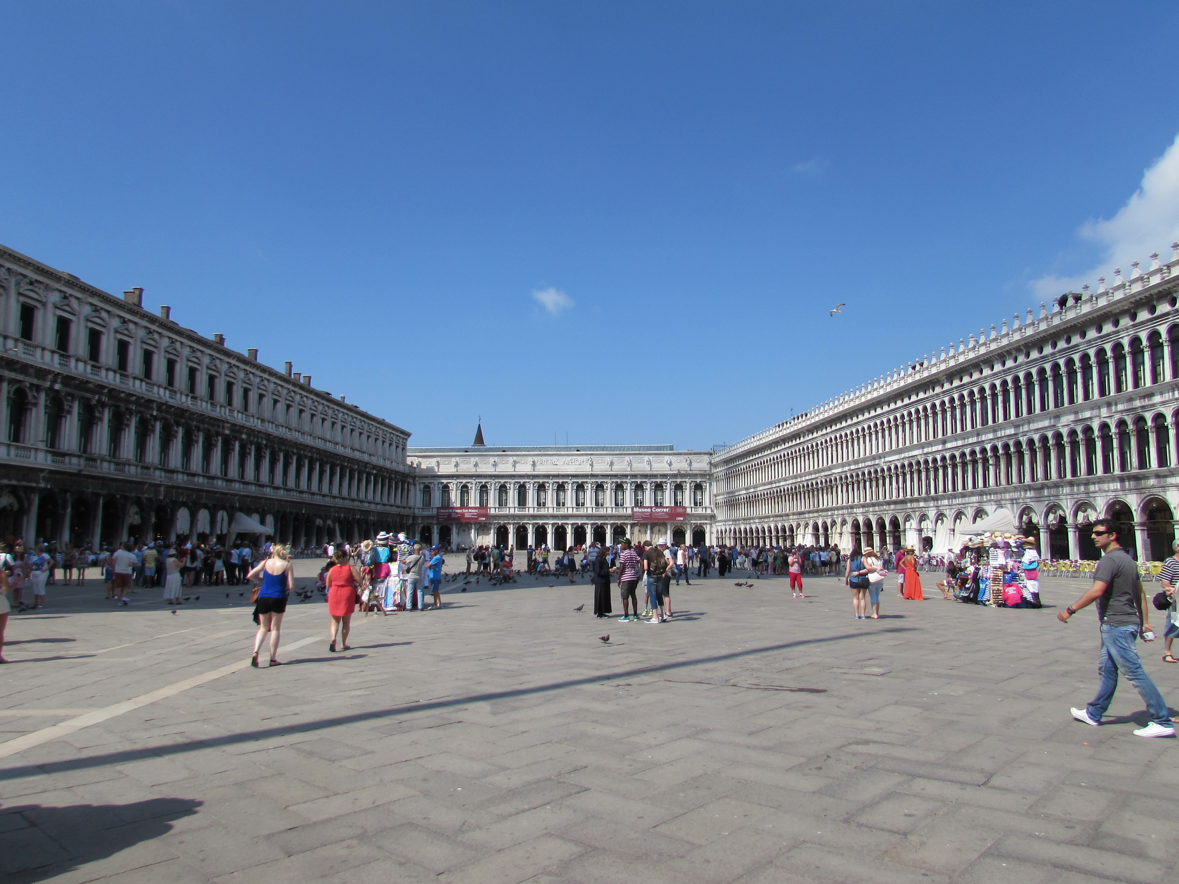 Piazza San Marco (Venice)